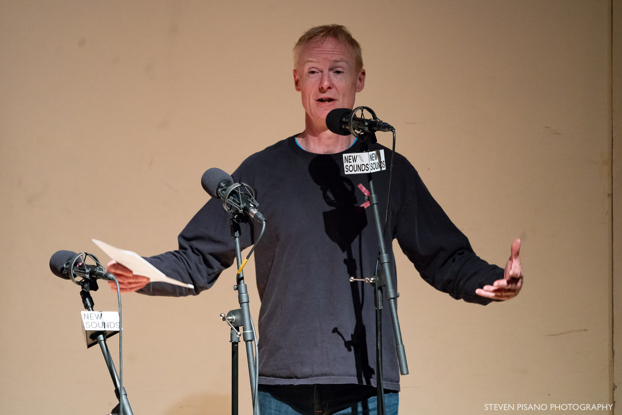 April 19, 2018 Merkin Hall Photo by Steven Pisano. John Schaefer